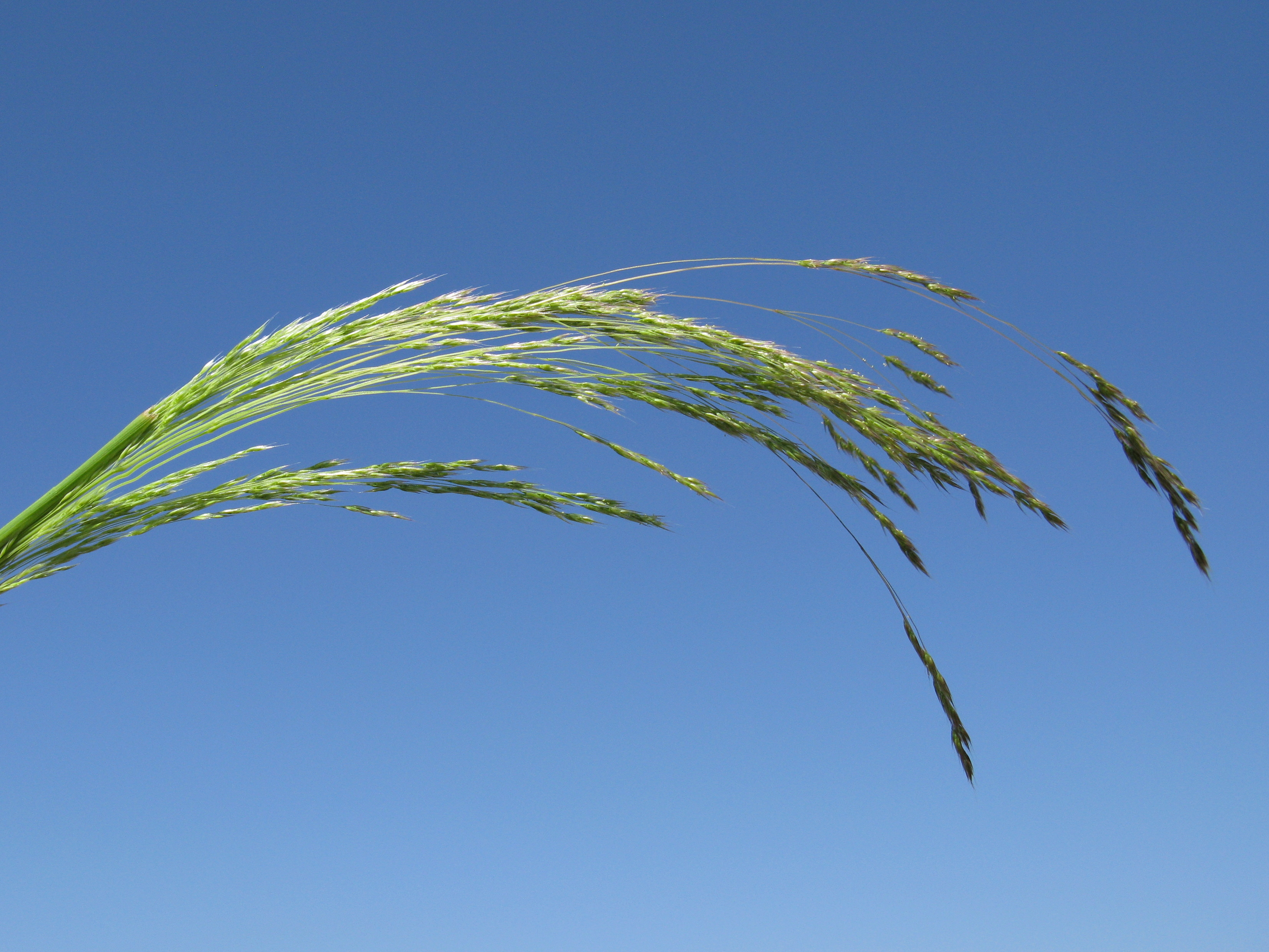 Lachnagrostis filiformis syn. Agrostis avenacea